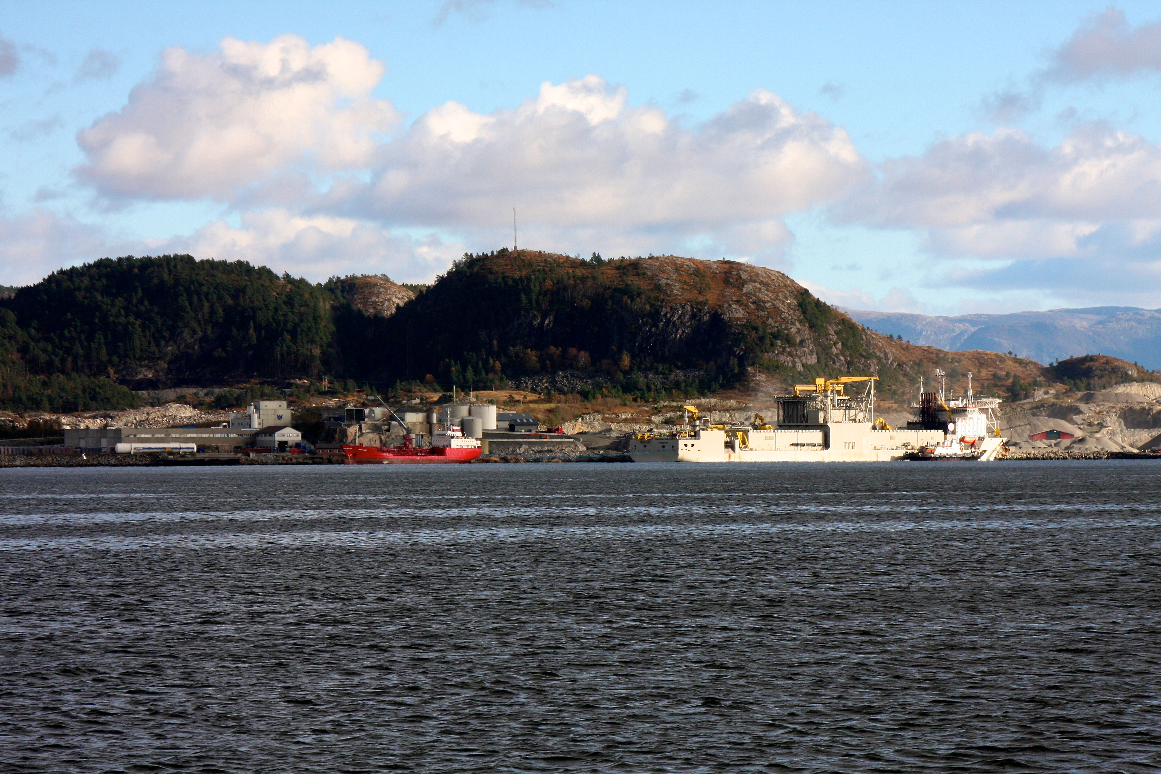 Gulen municipality, Norway.